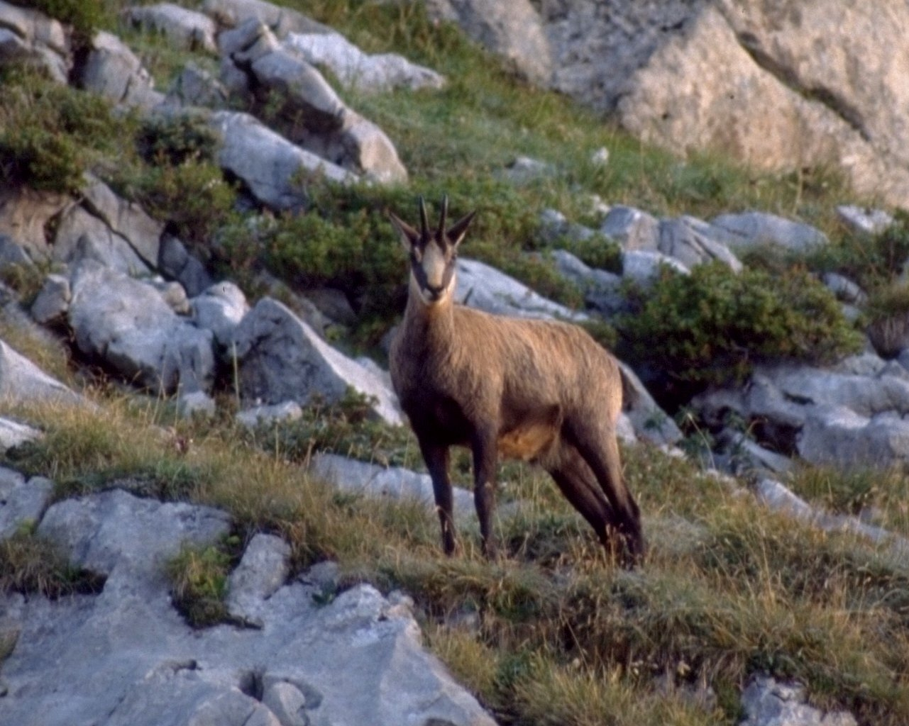 Rupicapra rupicapra; chamois in Kleinwalsertal, Austria Photo was taken using the following technique: Film: Kodak Slide Lens: 70-300 Filter: none Body: Minolta 600si Support: simple tripod Image with Information in English Bild mit Informationen auf Deutsch